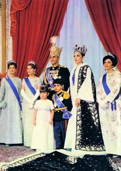 Coronation of the Shah of Iran in 1967, official photograph. Princess Ashraf, Princess Shahnaz, the Shah, Princess Farahnaz and Crown Prince Reza, Queen Farah and Princess Shams.